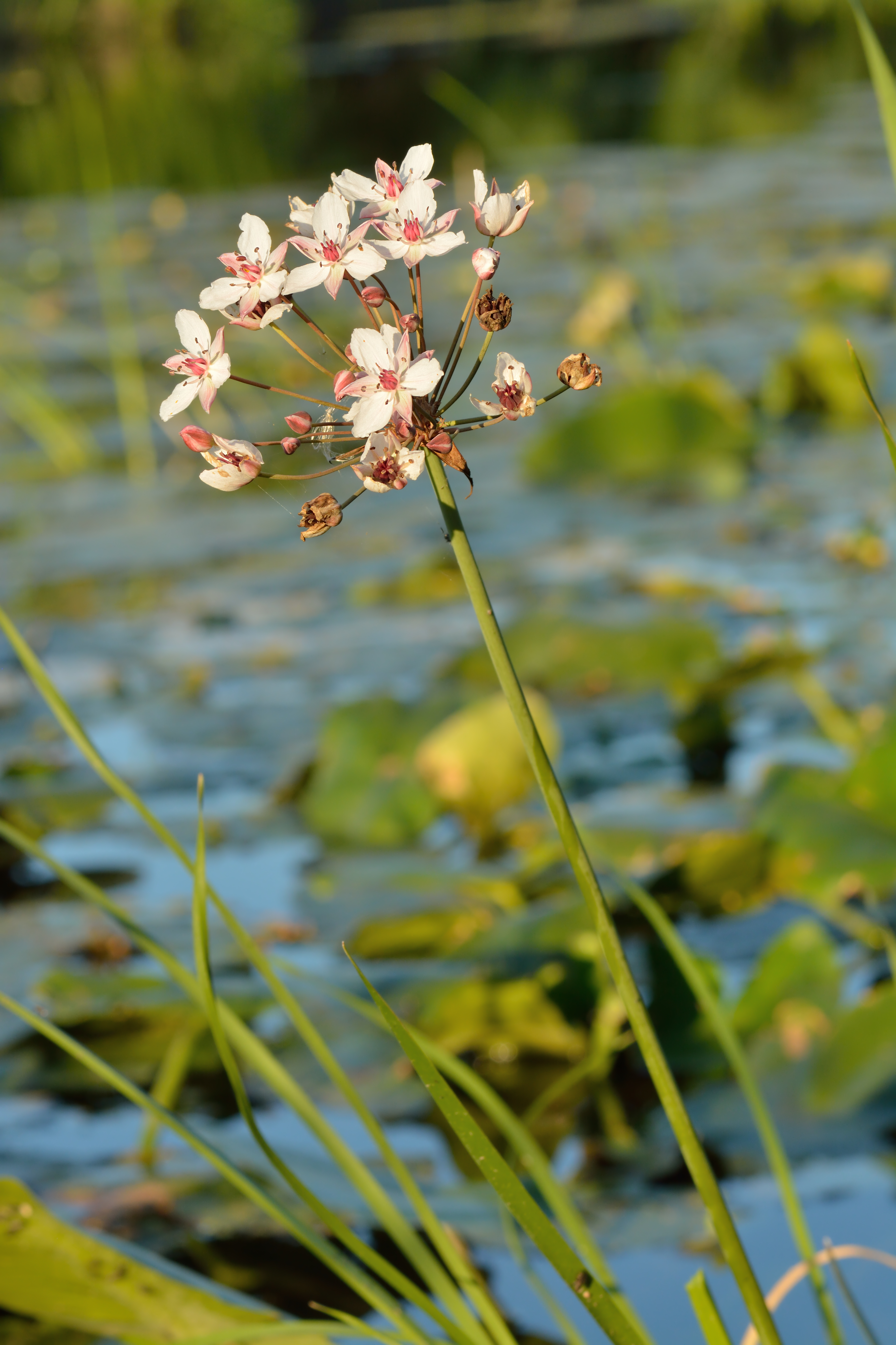 Butomus umbellatus - flowering rush in Keila, Northwestern Estonia.